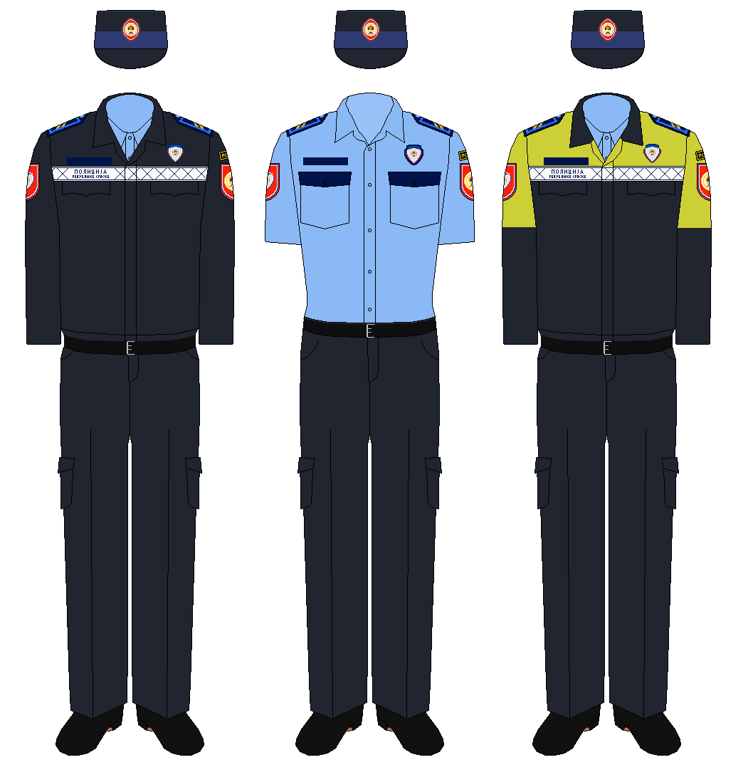 Police uniforms of Police of Republika Srpska from July 2014 till March 2018. First uniform is standard police uniform, second is summer uniform and third is uniform of traffic police. All uniforms are have sergeant rank.